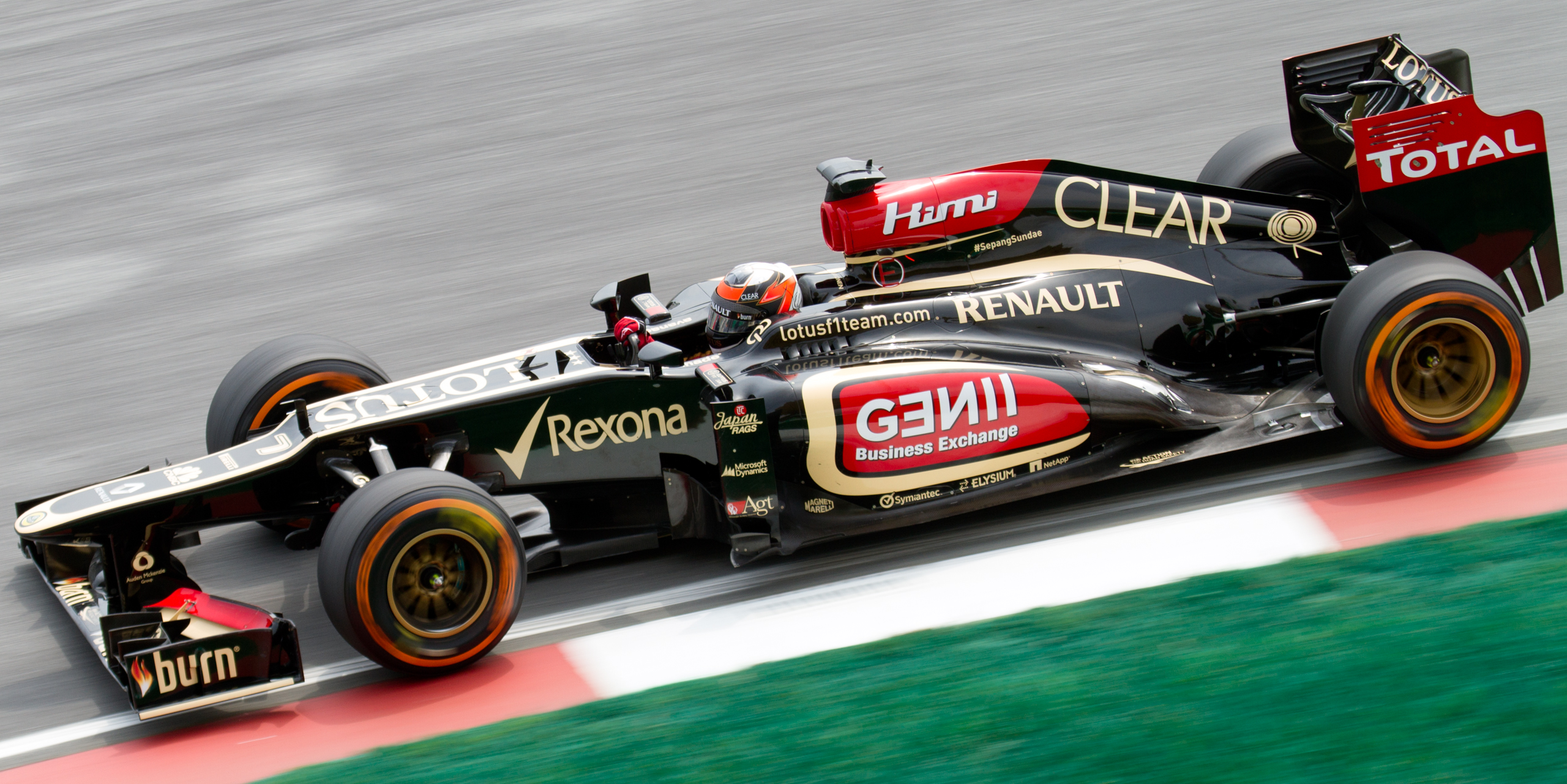 Formula One 2013 Rd.2 Malaysian GP: Kimi Räikkönen (Lotus) during the first practice session on Friday.